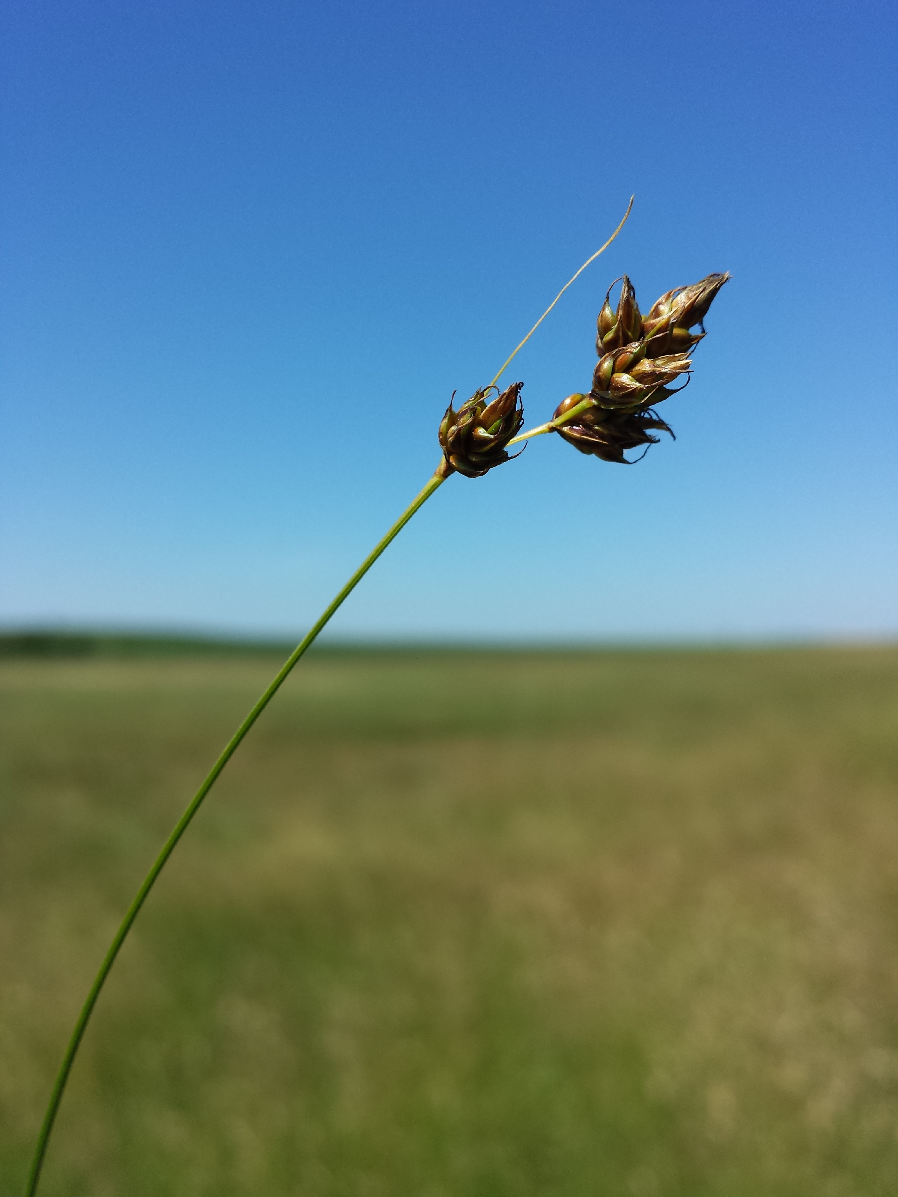 Infructescence Taxonym: Carex divisa ss Fischer et al. EfÖLS 2008 ISBN 978-3-85474-187-9; det. Gergely Király 2015-06-06 Location: Loess hills next Belsőbáránd, Fejér County, Hungary - ca. 120 m a.s.l. Habitat: salty wet meadows